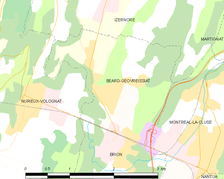 Map of French commune: Béard-Géovreissiat Map commune FR insee code 01170.png